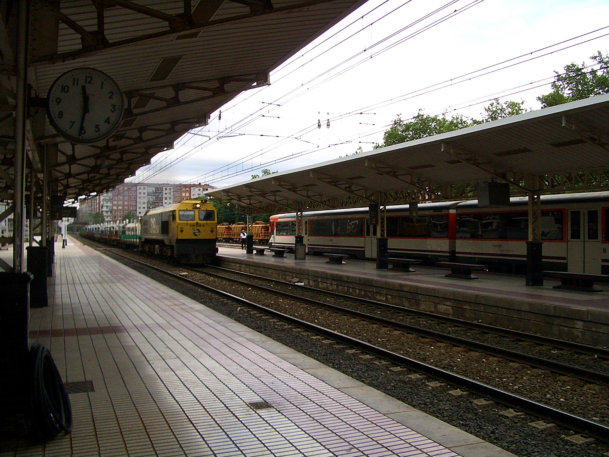 Train station in Vitoria-Gasteiz